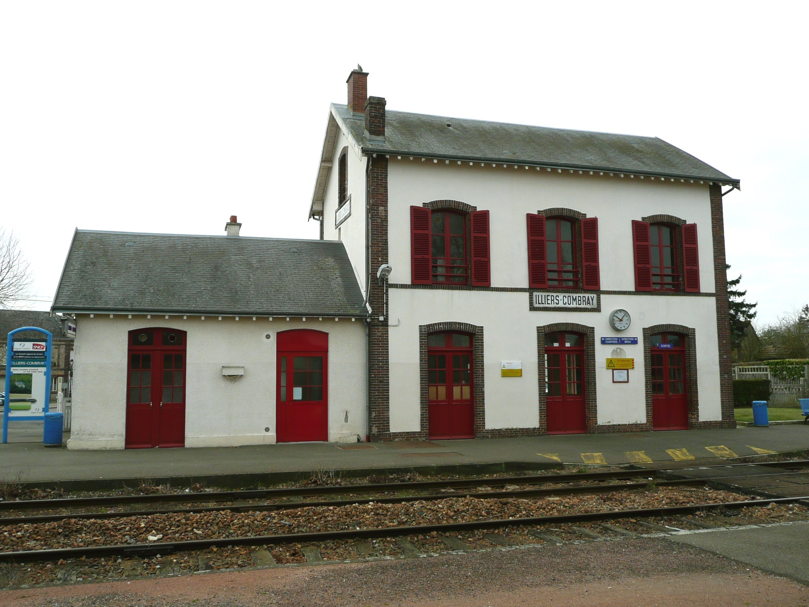 Illiers-Combray railway station back frontage